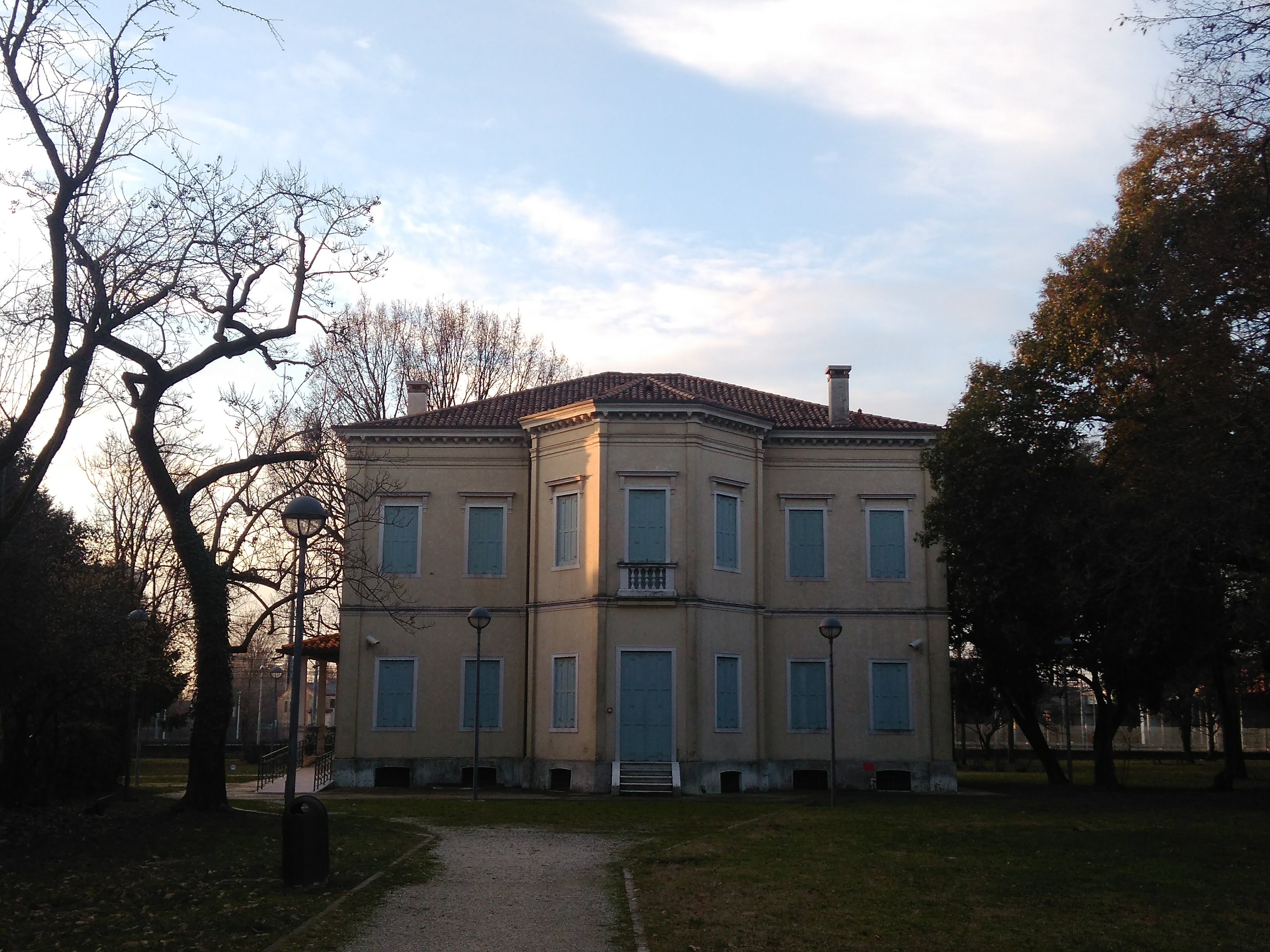 Front view of Villa Ceresa in Mestre (Venice)